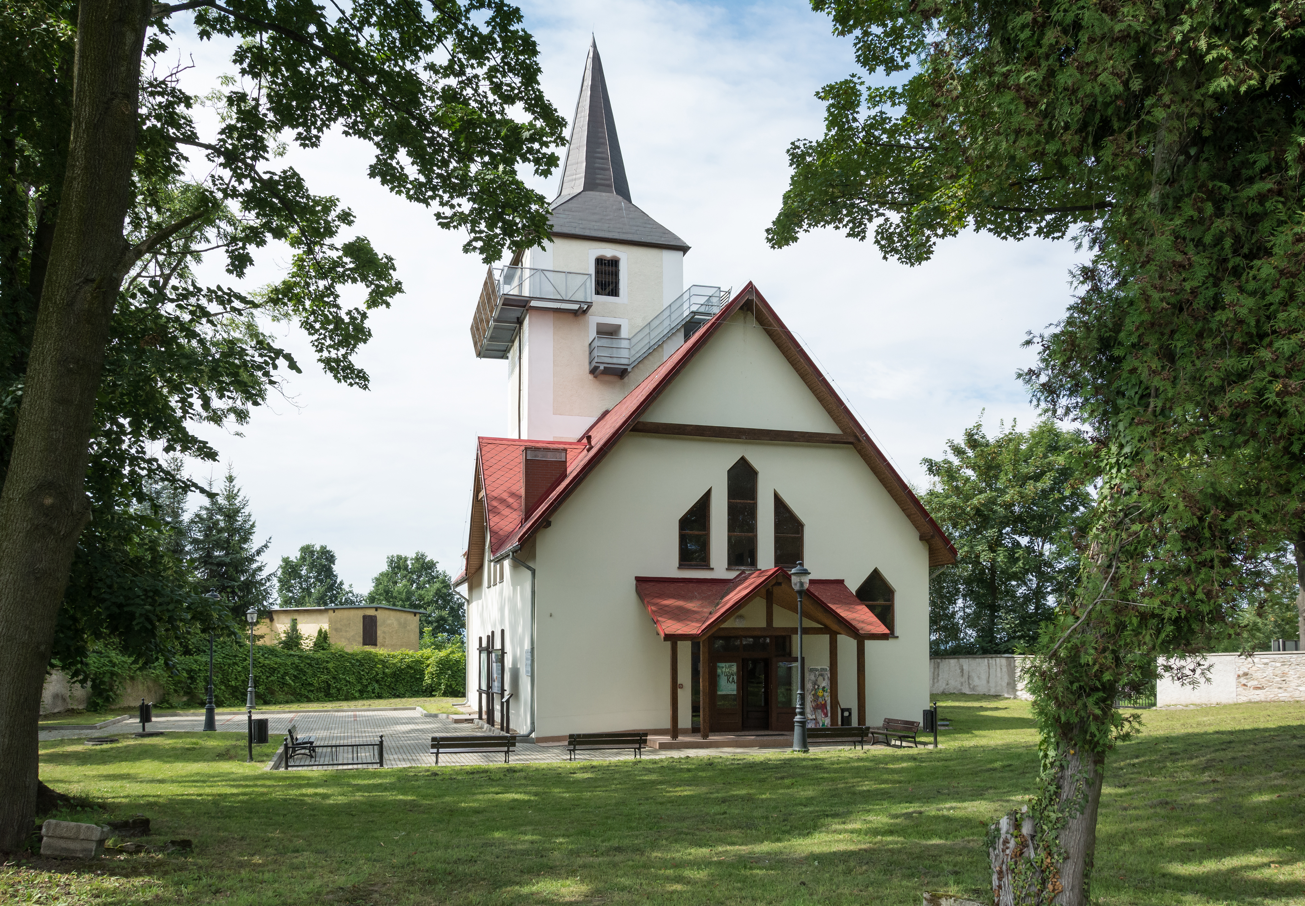 Former church in Radomierz